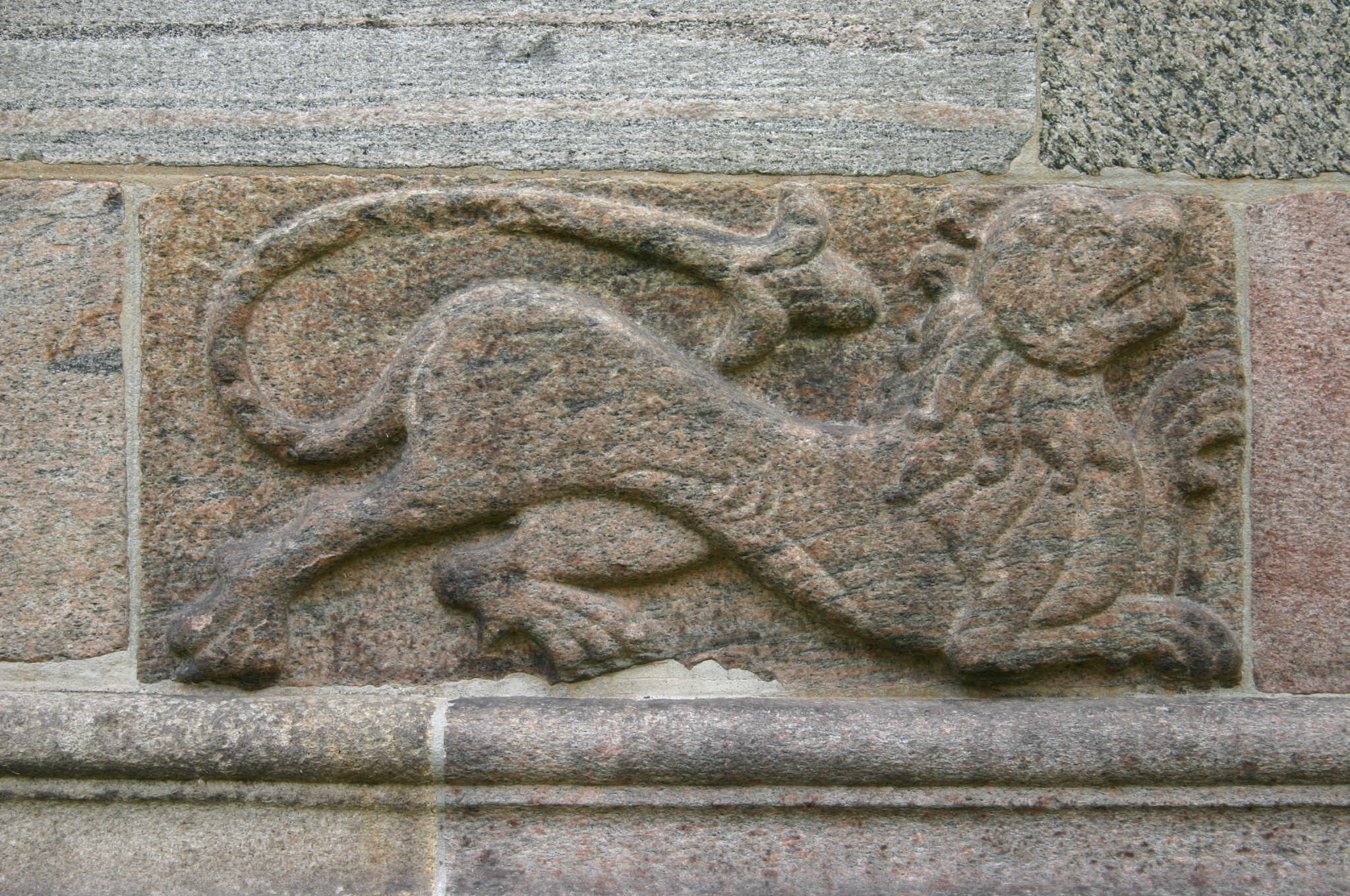 Stone relief of lion from apse of Viborg Cathedral, Denmark. Origenally made around the year 1100.